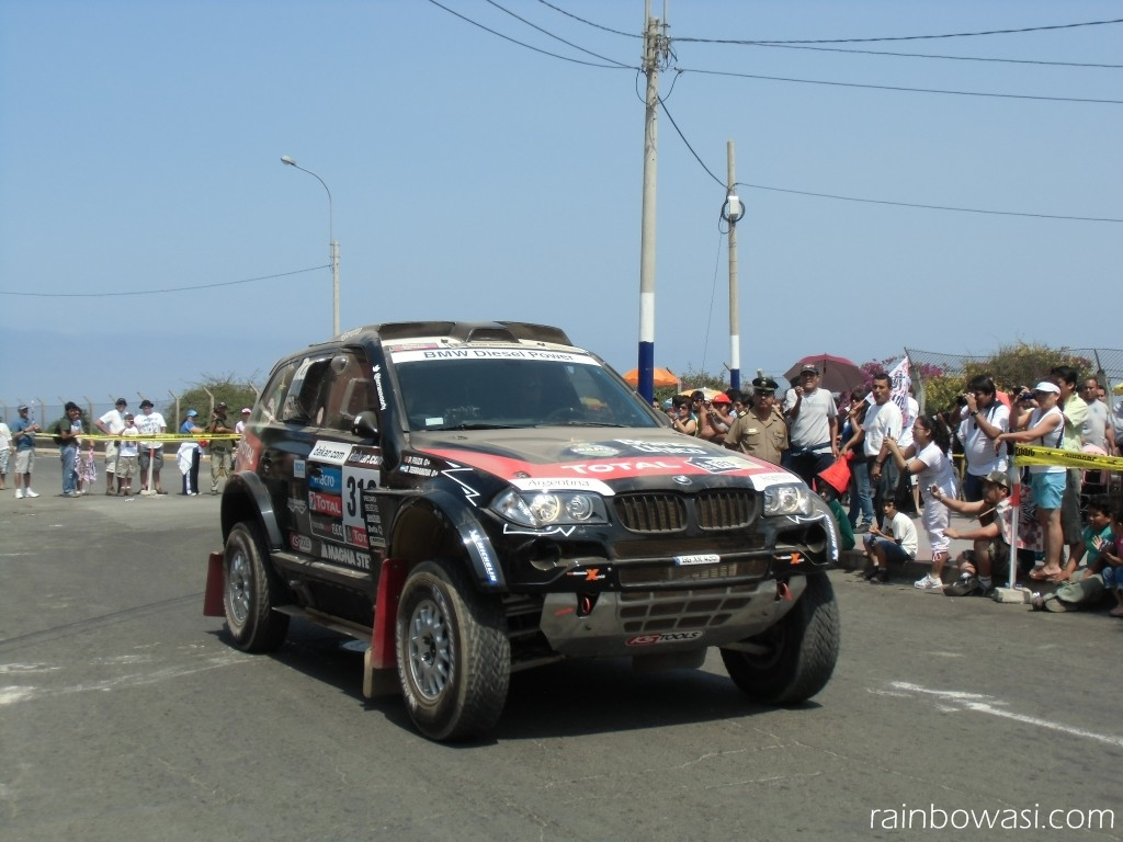 Orlando Terranova on BMW during first stage of 2013 Dakar Rally